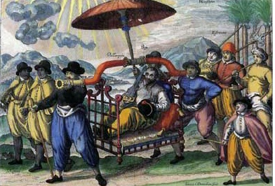 "This depiction of "the manner in which the Portuguese [in Goa] who are of noble descent and wealth have themselves carried about " is one of a series of illustrations of life in Portuguese India created by the Dutch traveler Jan Huyghen van Linschoten (1563–1611). [...] From Itinerario: Voyage ofte schipvaert [. . .] naer Oost ofte Portugaels Indien [. . .] (Amsterdam, 1596). Signed by the engraver, Jan (or Johannes Baptista) van Doetechem."